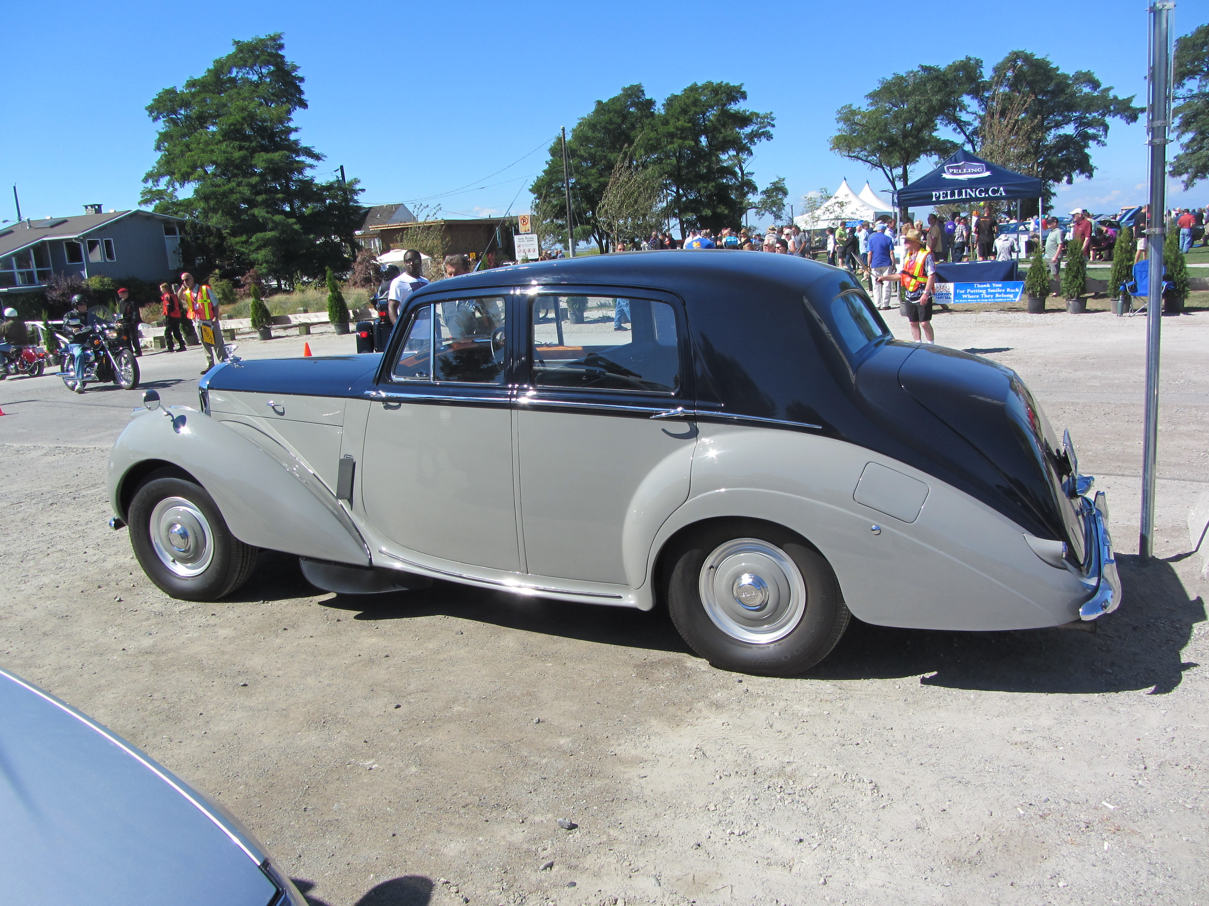 Bentley seen in the parking areas around Blackie Spit, Surrey, British Columbia